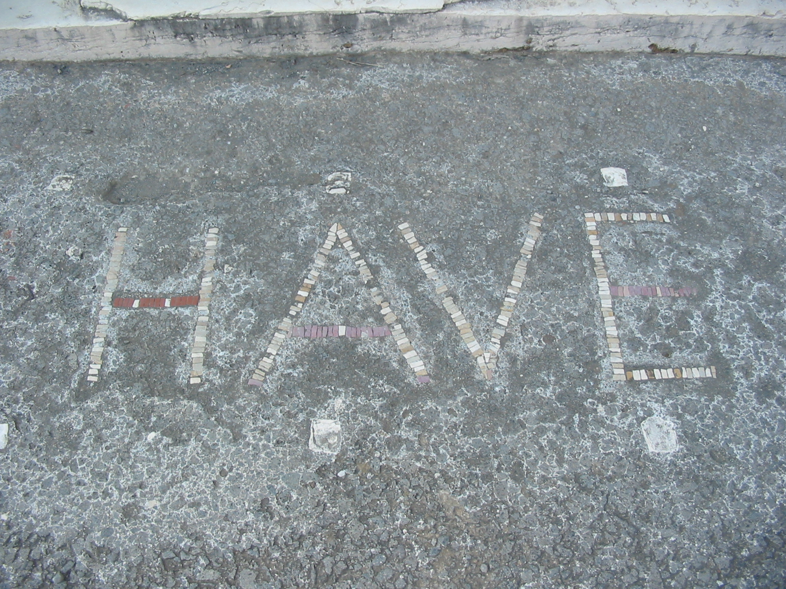 The "HAVE" mosaic, a kind of ancient "Welcome mat" outside the House of the Faun in Pompeii (2009). HAVE is a spelling variant of AVE.